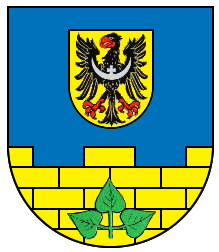 Coat of arms of the former district Niederschlesischer Oberlausitzkreis (1994–2008) in Saxony, Germany.